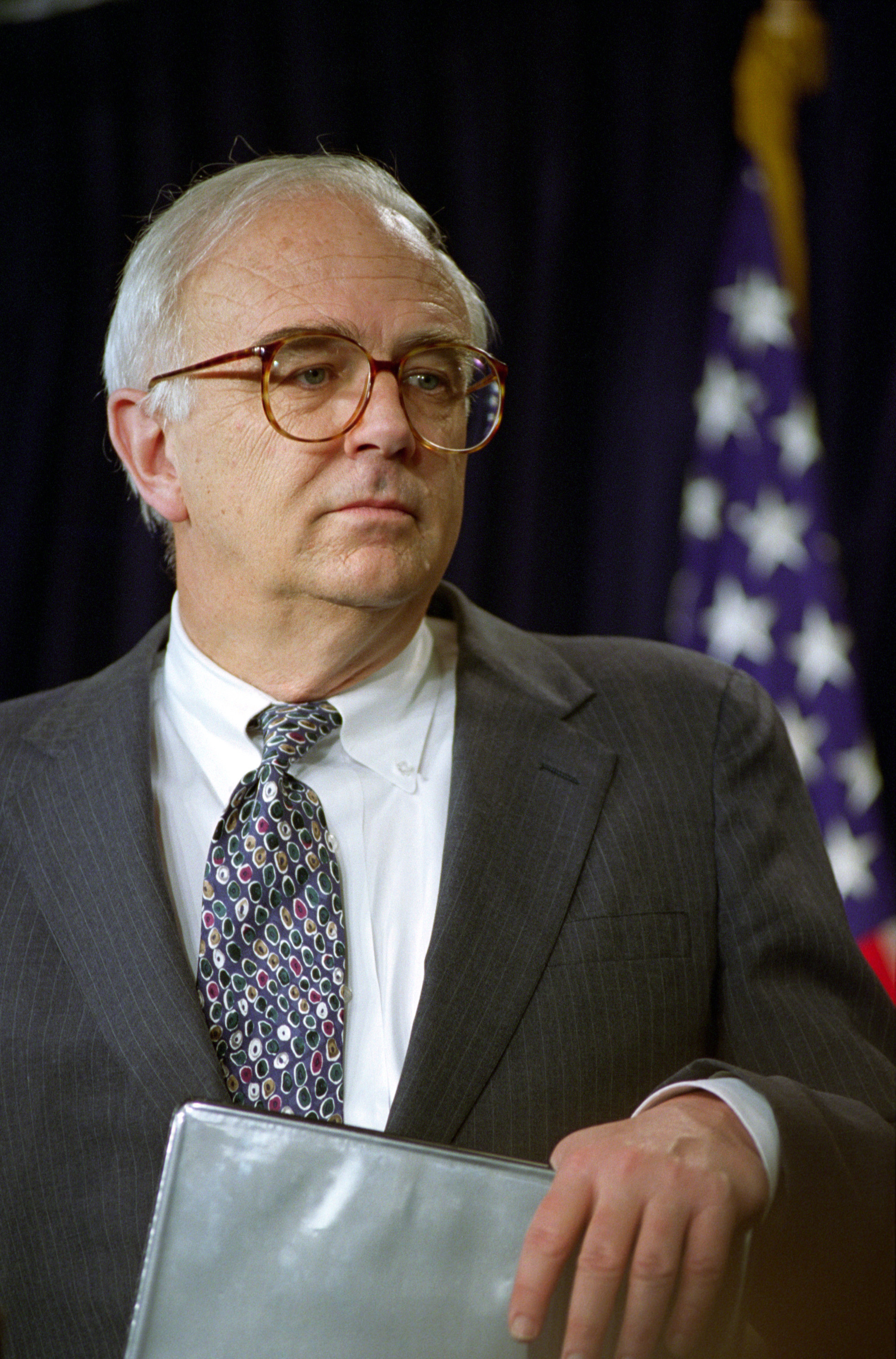 Leslie "Les" Aspin, Jr. - U.S. Secretary of Defense, January 21, 1993 – February 3, 1994